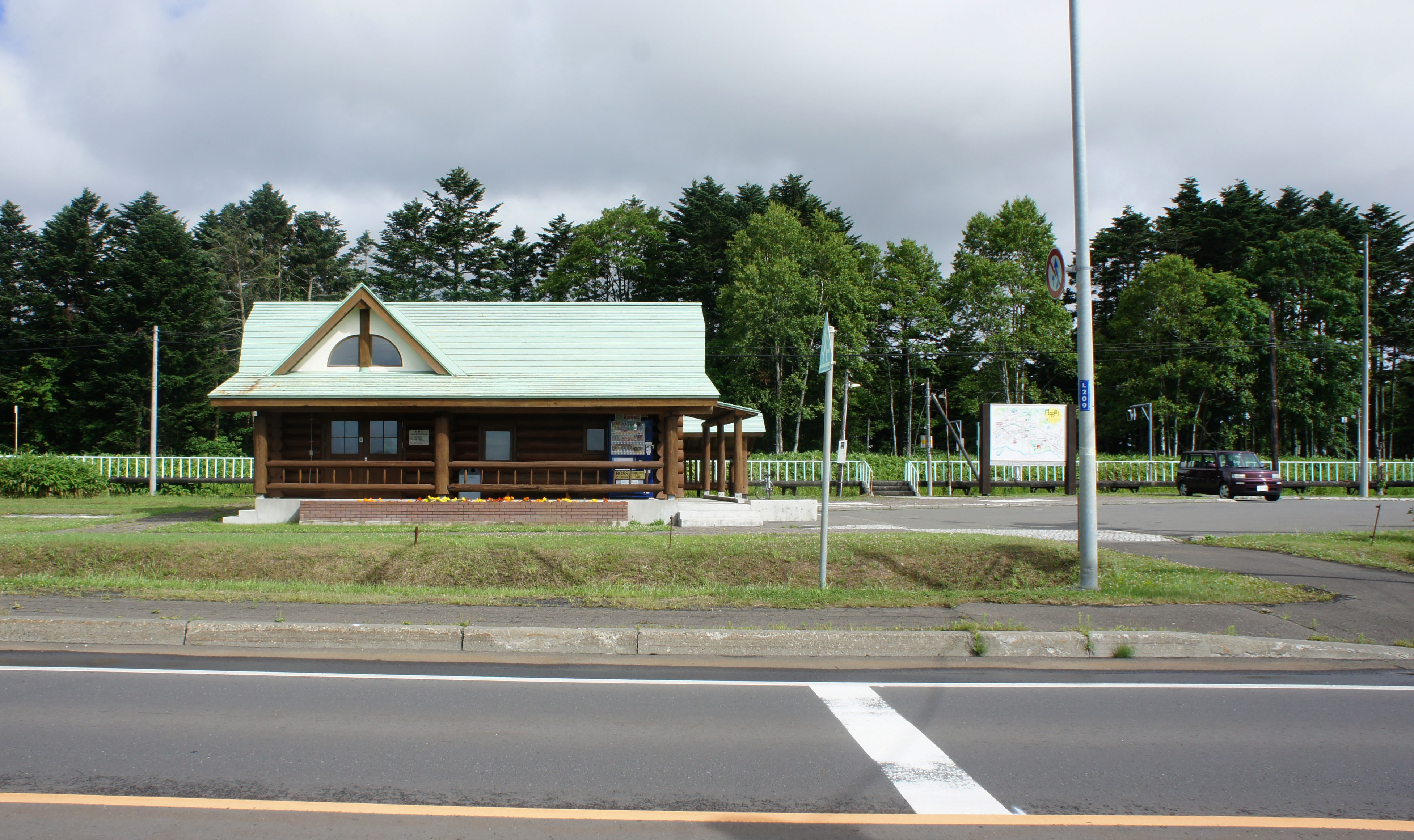 Overall of JR Sassho-Line Tsukigaoka Station